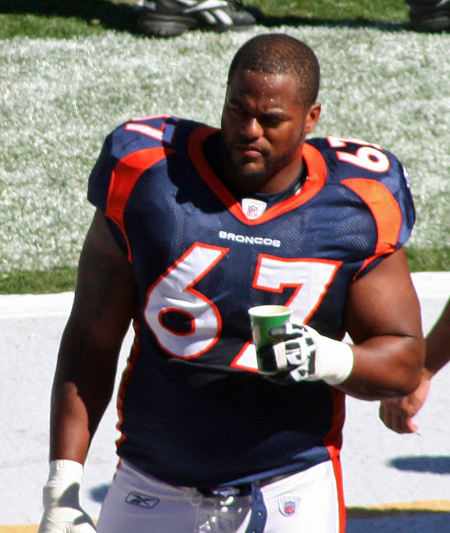 D'Anthony Batiste, a player on the Denver Broncos American football team.